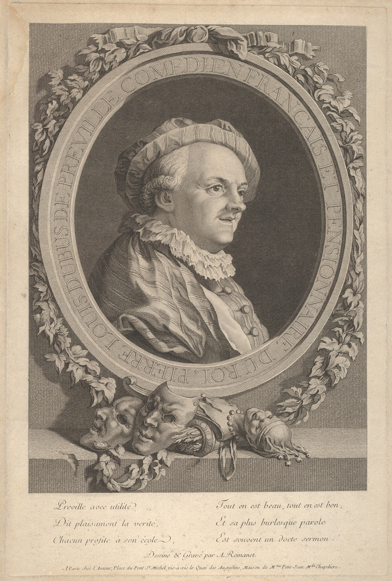 Print; Prints